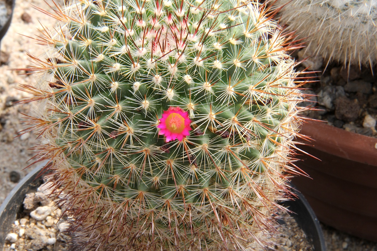 Mammillaria sp.